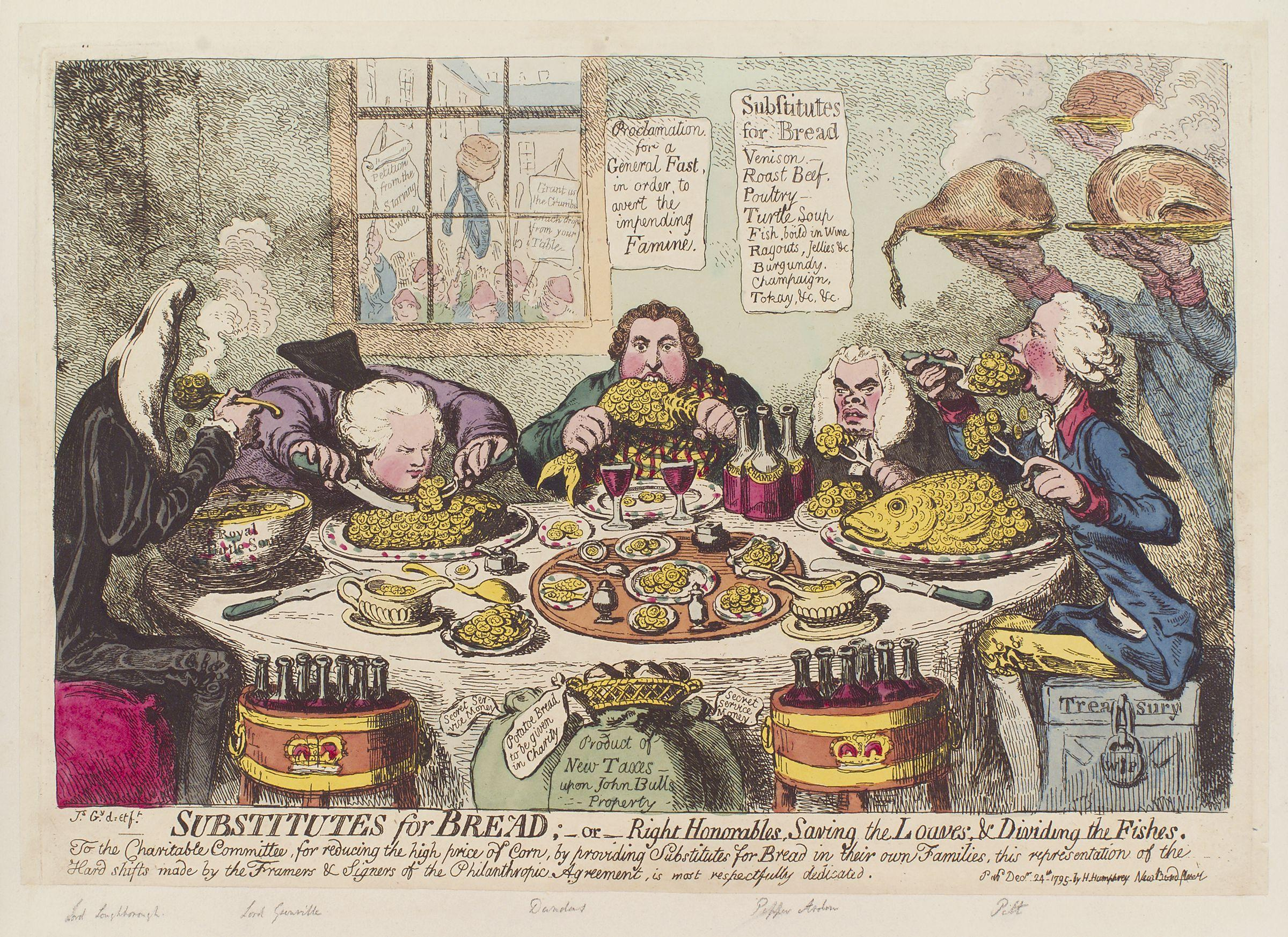 Substitutes for bread; - or - right honorables, saving the loaves, and dividing the fishes, by James Gillray (died 1815), published 1795. All images in this batch have been confirmed as author died before 1939 according to the official death date listed by the NPG.